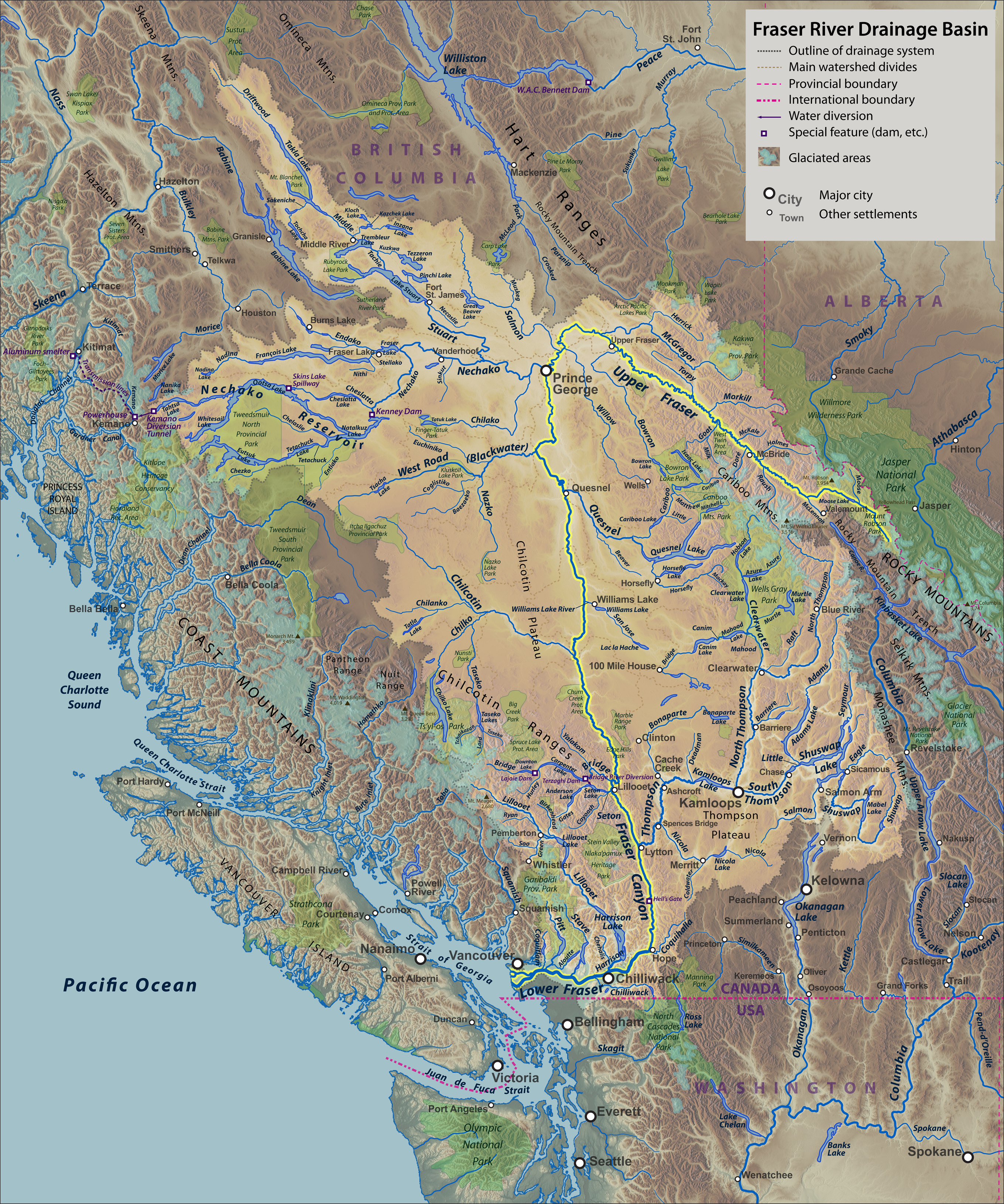 Fraser River course and river system. Created with GIS data, QGIS, Adobe Illustrator and Photoshop.